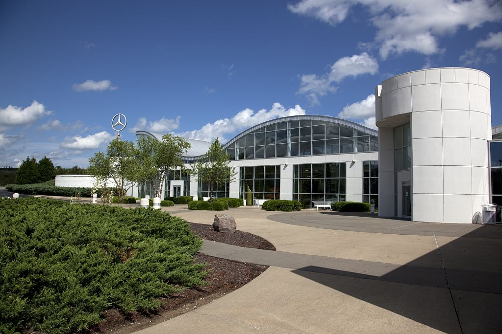 Mercedes-Benz U.S. International Plant located in Tuscaloosa County, Alabama.